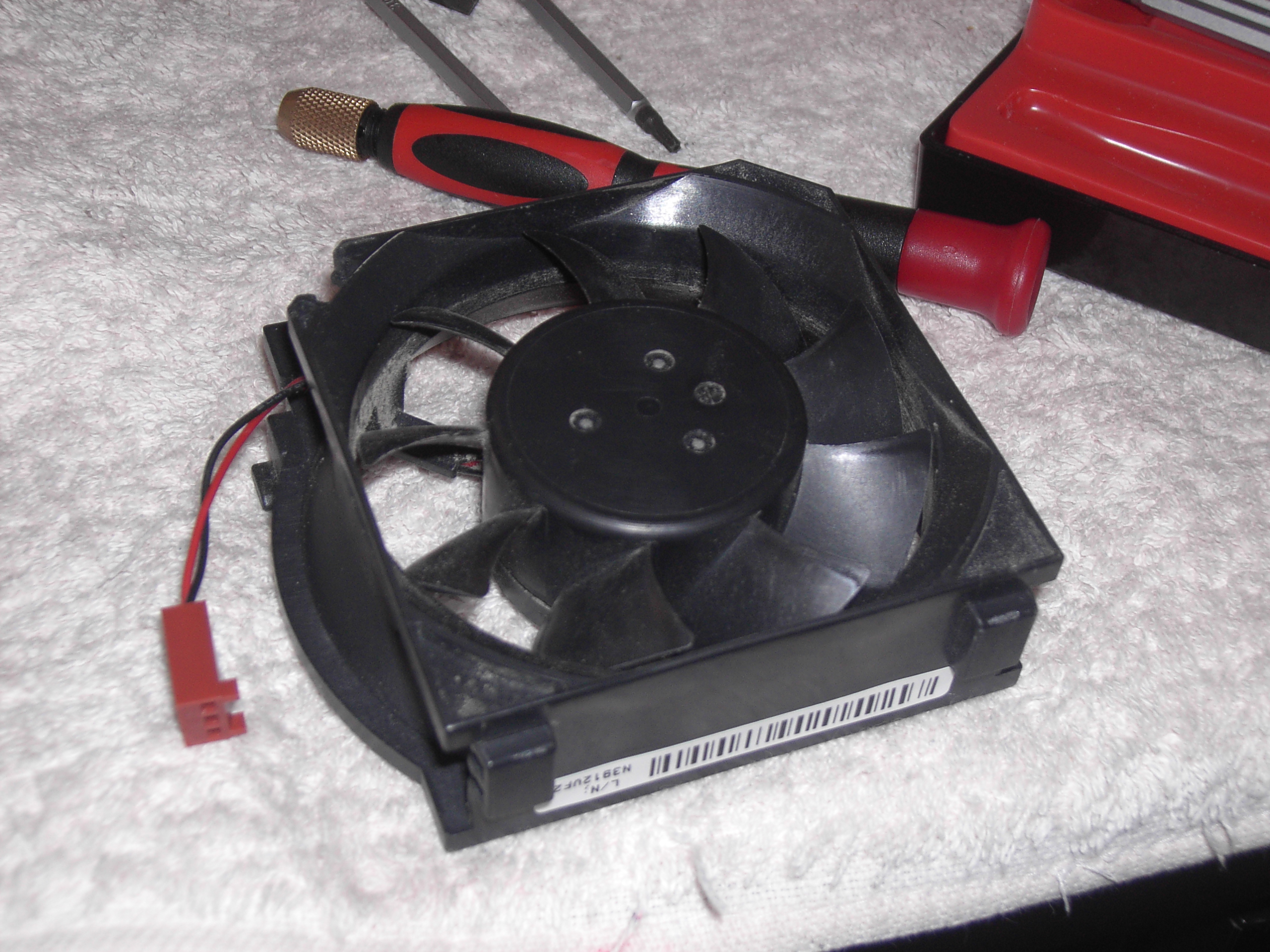 12 volt cooling fan that was installed in the Xbox.